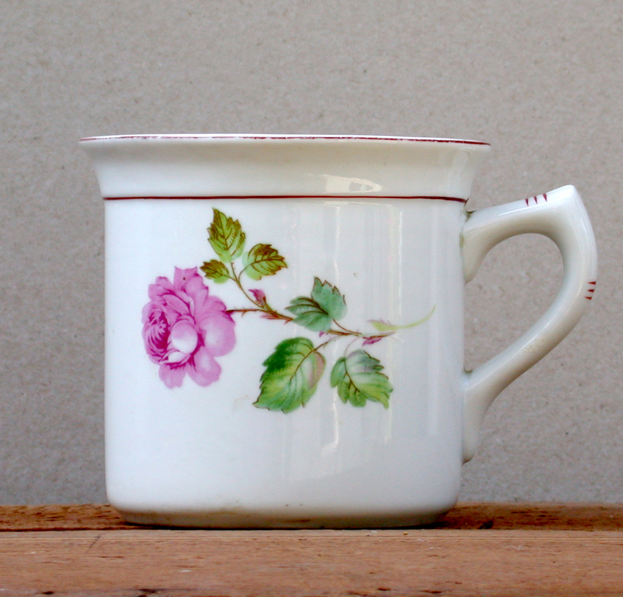 Porcelain mugs, with bricks stickers decorated - 1932. Szeged. Hungary